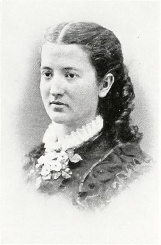 Althea Sherman as a student at Oberlin College